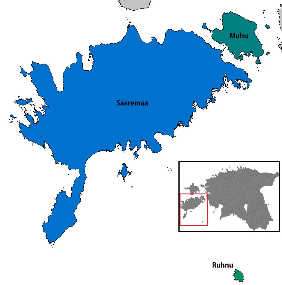 Map of the municipalities of Saare county in Estonia, 2017